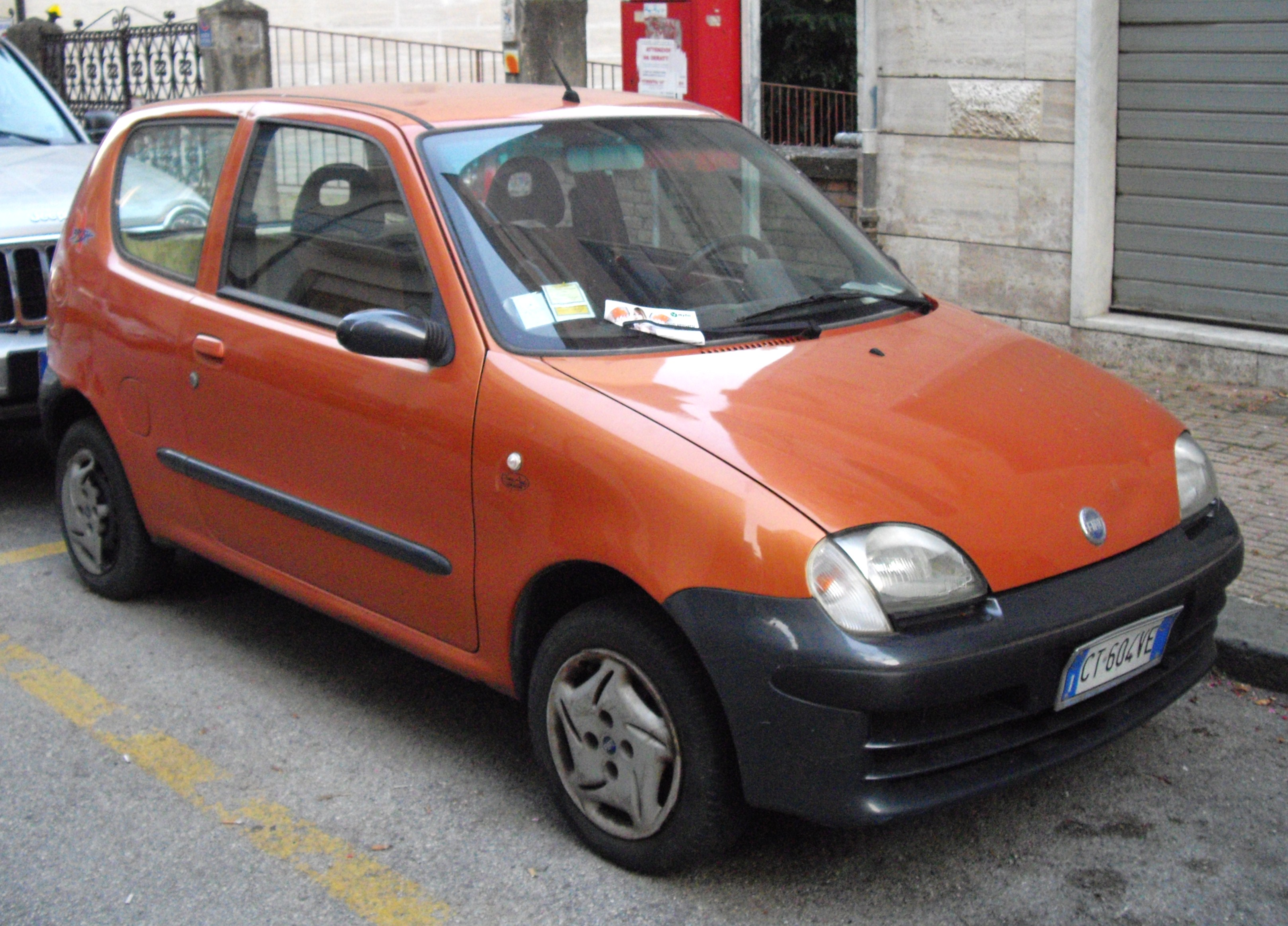 Fiat Seicento Brush car in Italy. Front viev.